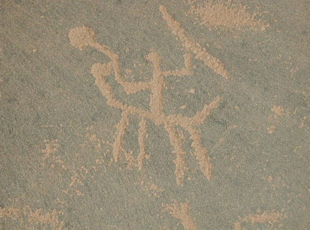 Prehistoric rock art, Foum Chena/ Tinzouline-Zagora, valley of the River Draa, Morocco